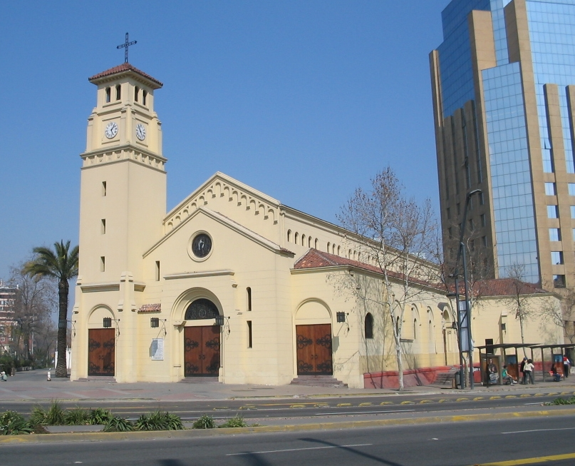 Military Cathedral of Chile, located at the intersection of Nueva Providencia Avenue and Los Leones Avenue, in the commune of Providencia, Santiago, Chile.